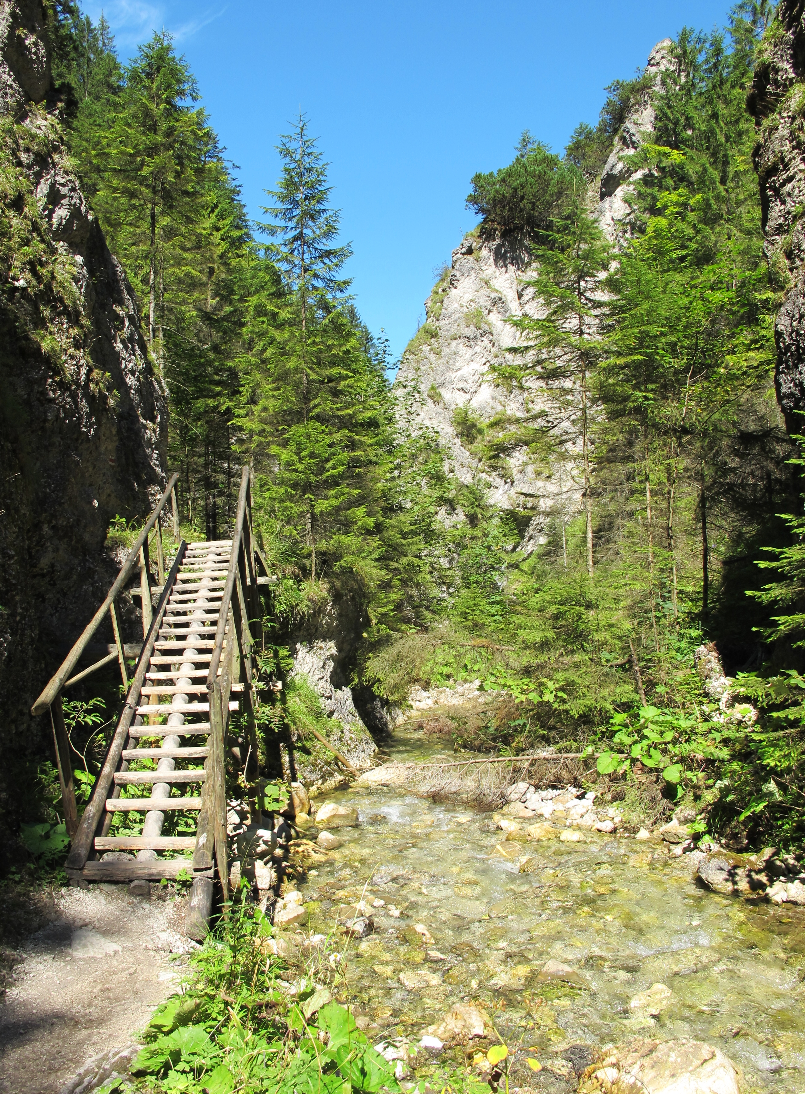 National nature reserve Juráňova dolina near Oravice in Tvrdošín District, Slovak Republic